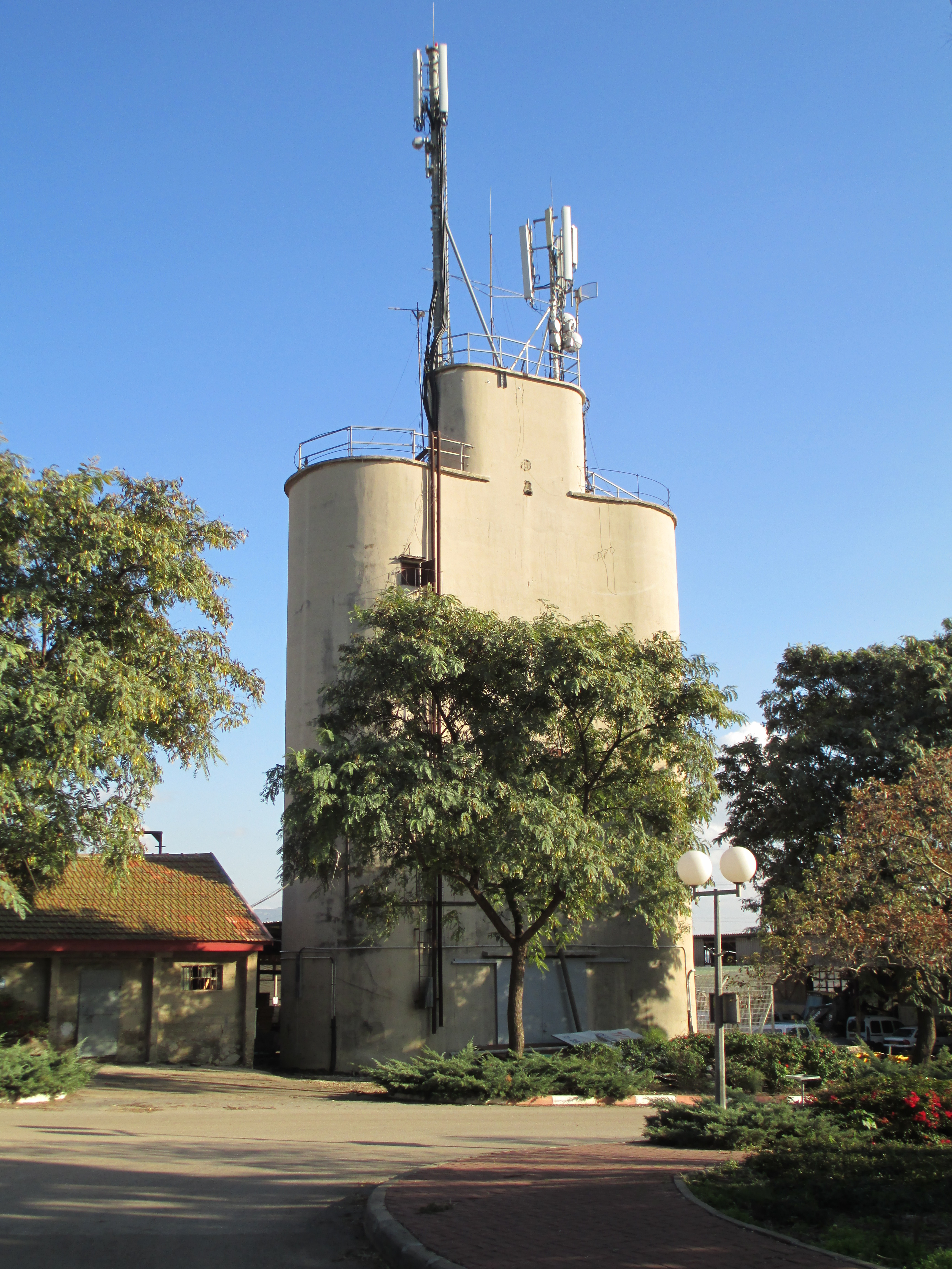 Kibbutz Ginegar-Silo tower